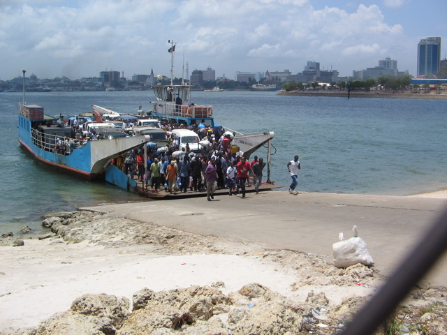 The skyline of Dar-es-Salaam, in the foreground ferry to Kigamboni. Ferry “Old Kigamboni”, built by NRSW. The ship is scheduled for the end of 2008 to be completely modernized with new propulsion plants and electrical systems.